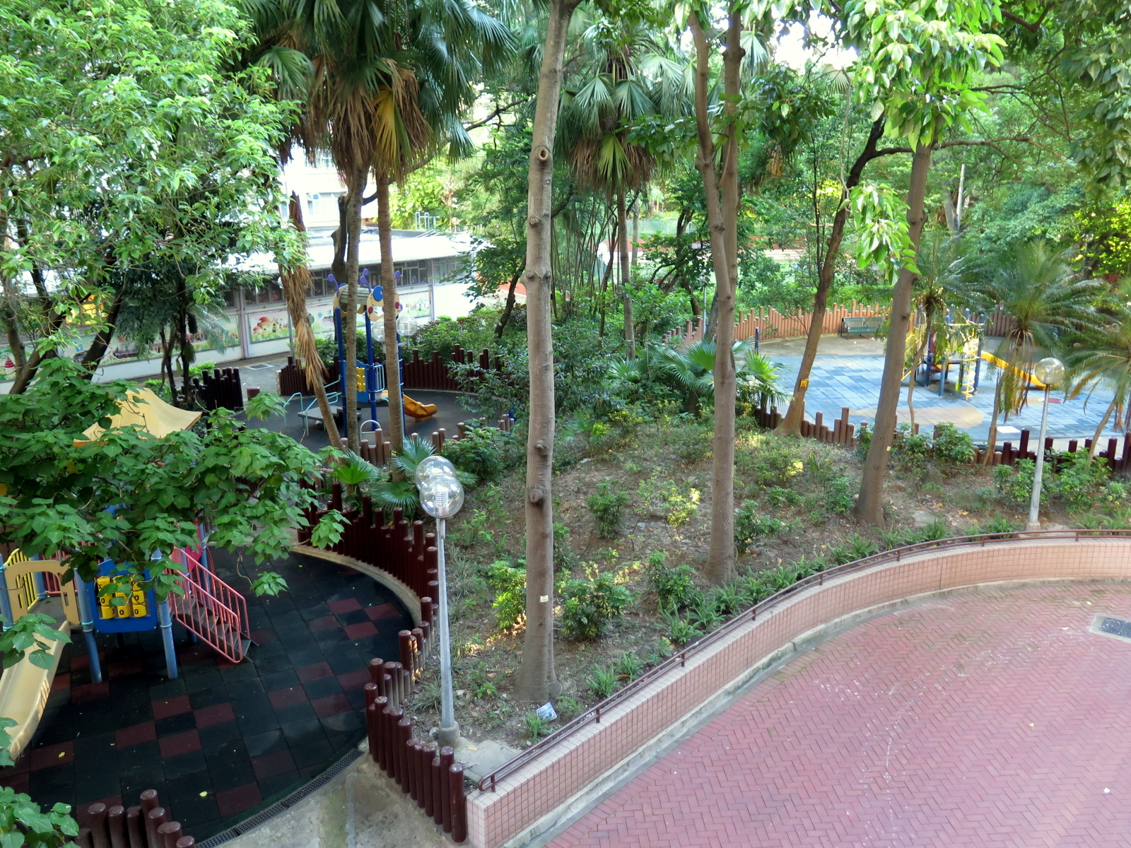 Choi Yuen Estate Playground